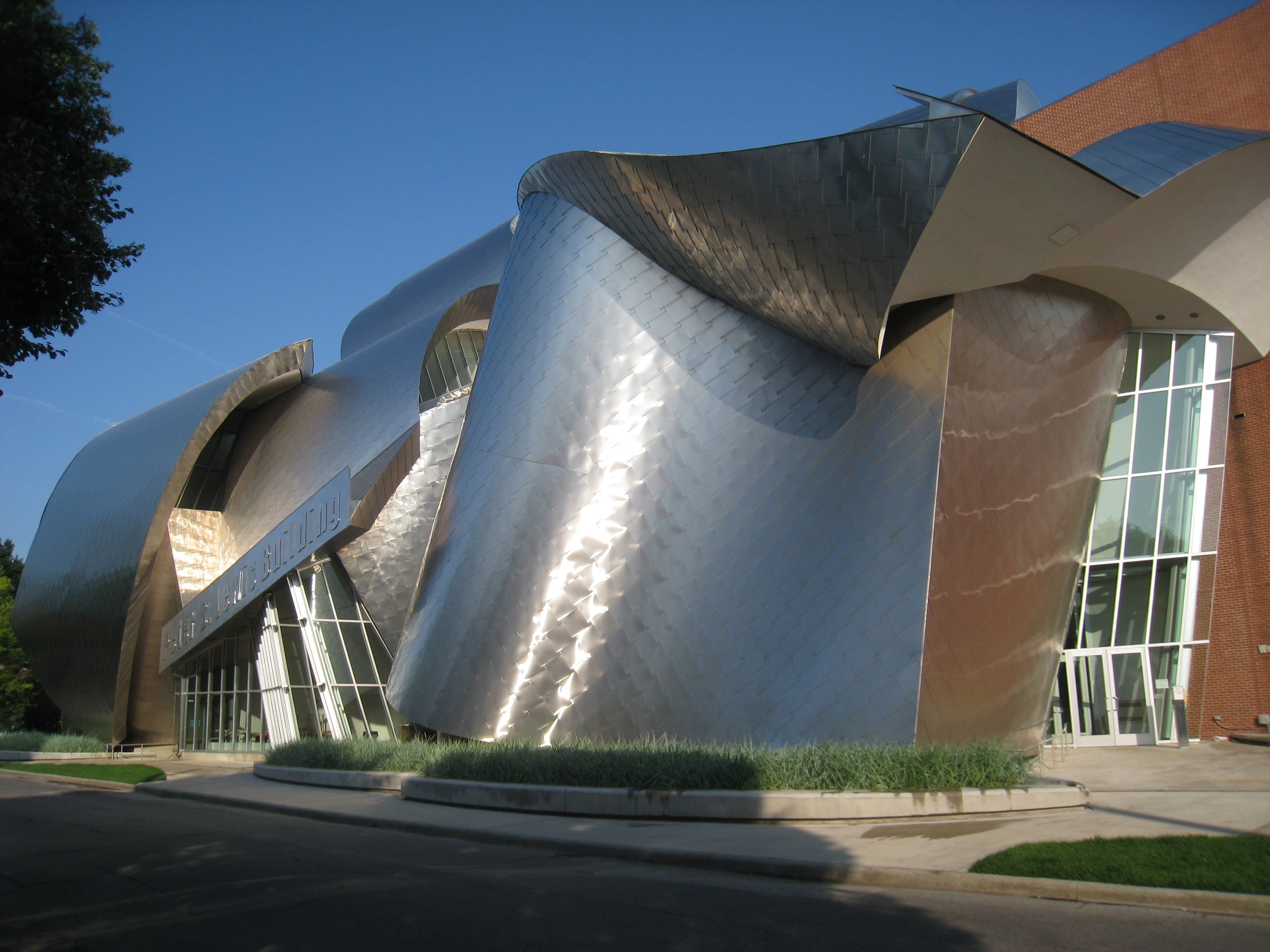 Peter B. Lewis Building, Case Western Reserve, Cleveland, Ohio, USA. Architect Frank Gehry. The building is located at Ford Drive and Bellflower Rd.